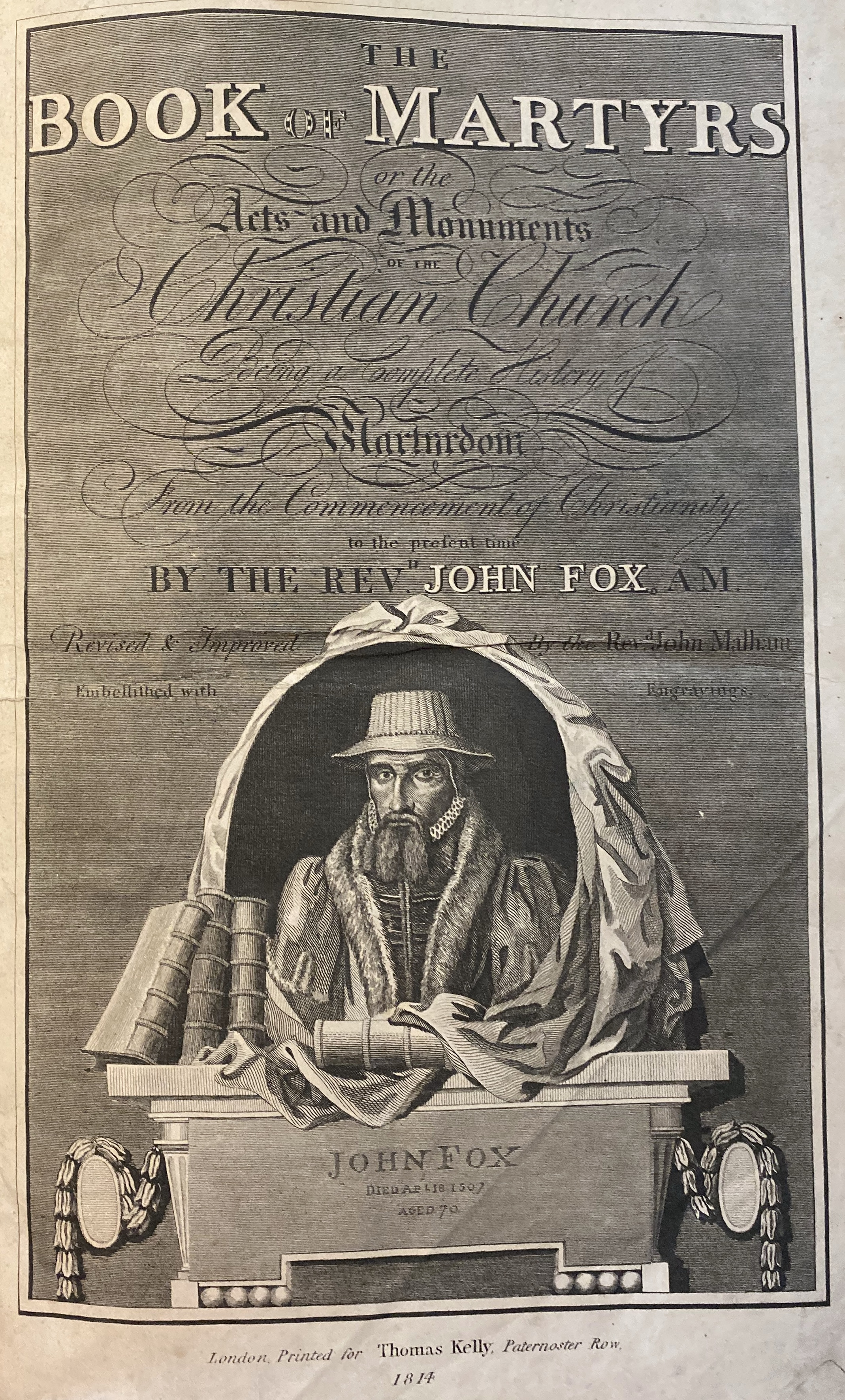 Photograph of engraved title page from 1814 book, The Book Of Martyrs, by John Fox, published in London in 1814 by Thomas Kelly, to be used on